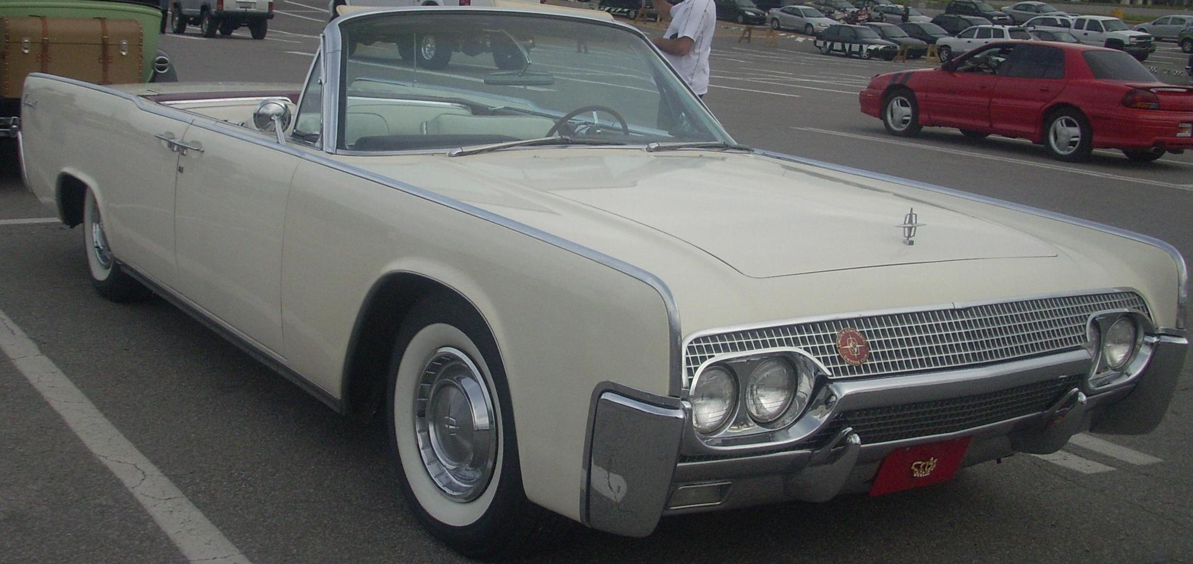 1961 Lincoln Continental Four-Door Convertible photographed in Laval, Quebec, Canada at Les chauds vendredis 2010.